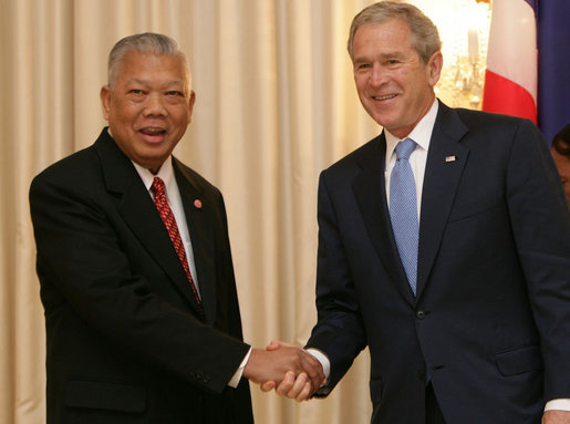 President George W. Bush is greeted by Prime Minister Samak Sundaravej of Thailand at a welcoming ceremony Wednesday, Aug. 6, 2008, in the Ivory Room of the Government House in Bangkok.